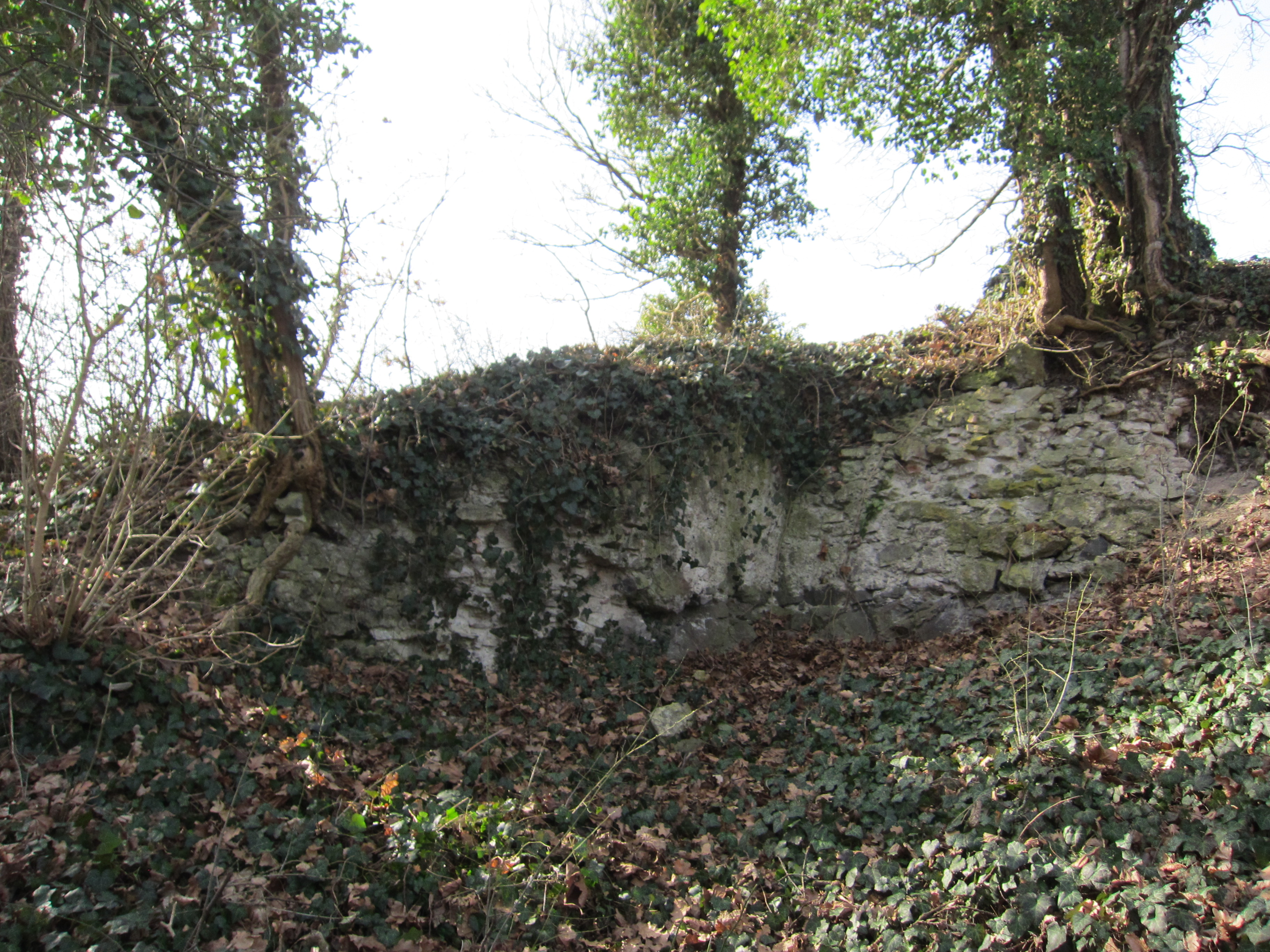 Höhingen Castle, wall at the northeastern side